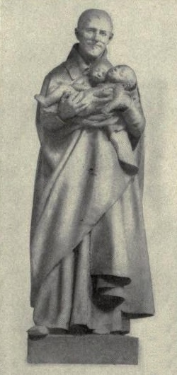 Statue of Saint Vincent de Paul (1879) by Alexandre Falguière.